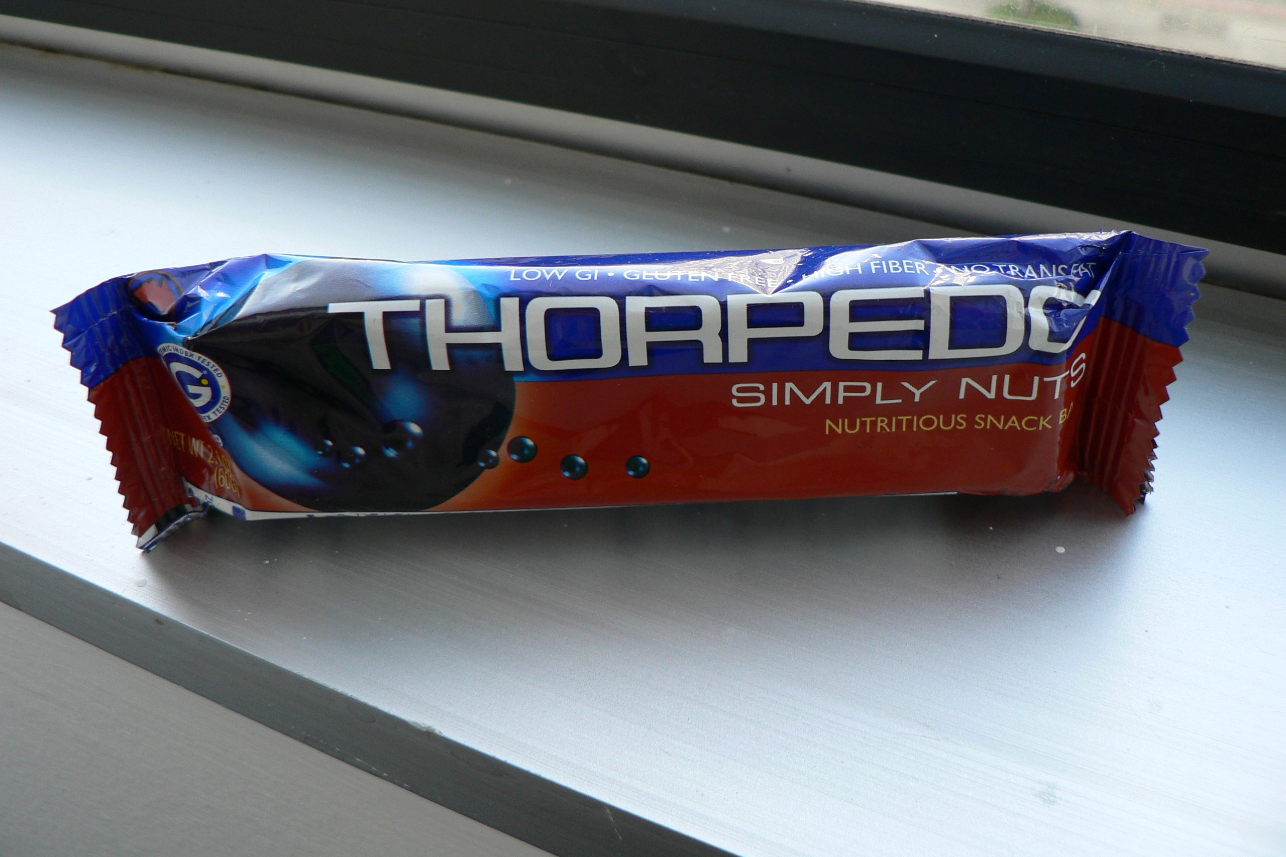 Ian Thorpe Thorpedo - The brand energy bar - My dad bought this Thorpedo brand energy bar at the supermarket innocent of the candy's meaning. It just tickles me to know that Ian Thorpe is still getting licensing deals stateside.